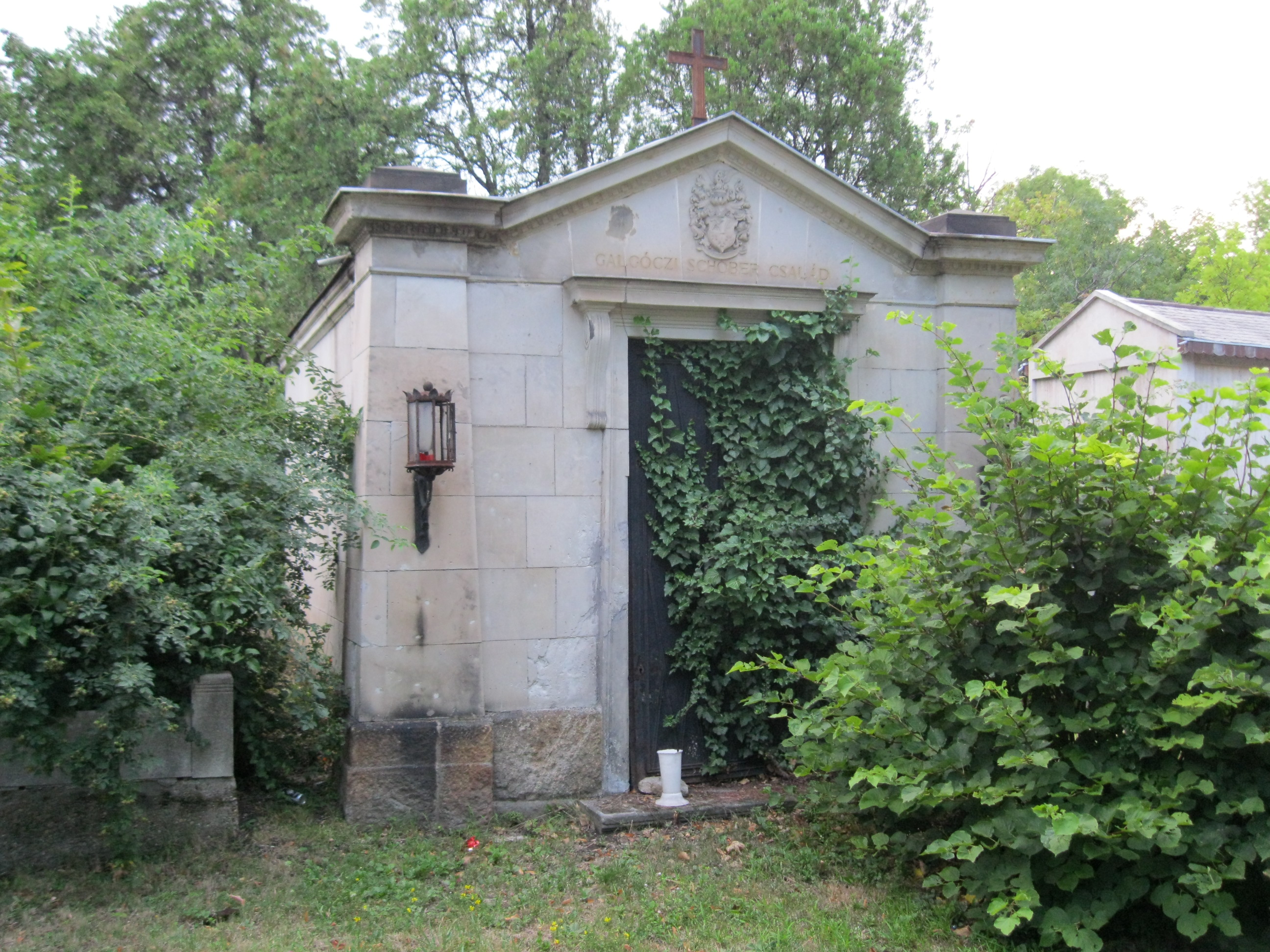 Crypt of Schober family in Farkasréti Cemetery [29-1-1]